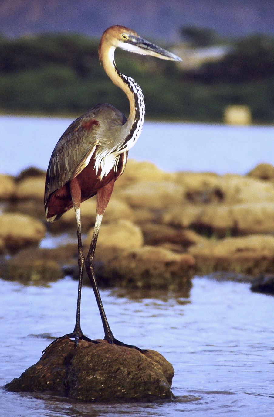 A goliath heron (Ardea goliath)standing by Lake Baringo, Kenya